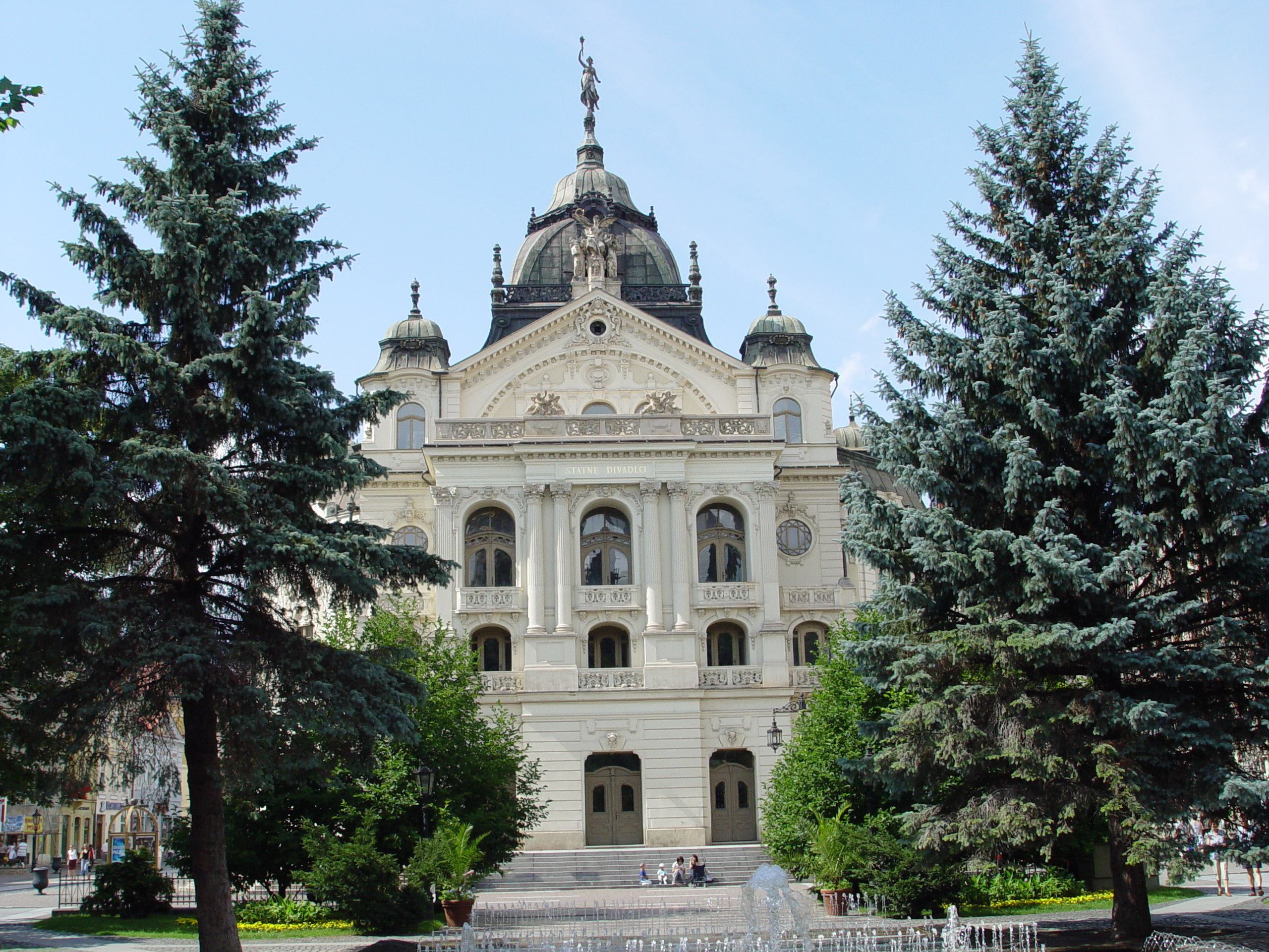 Slovakia, Košice, State Theater on Main Street